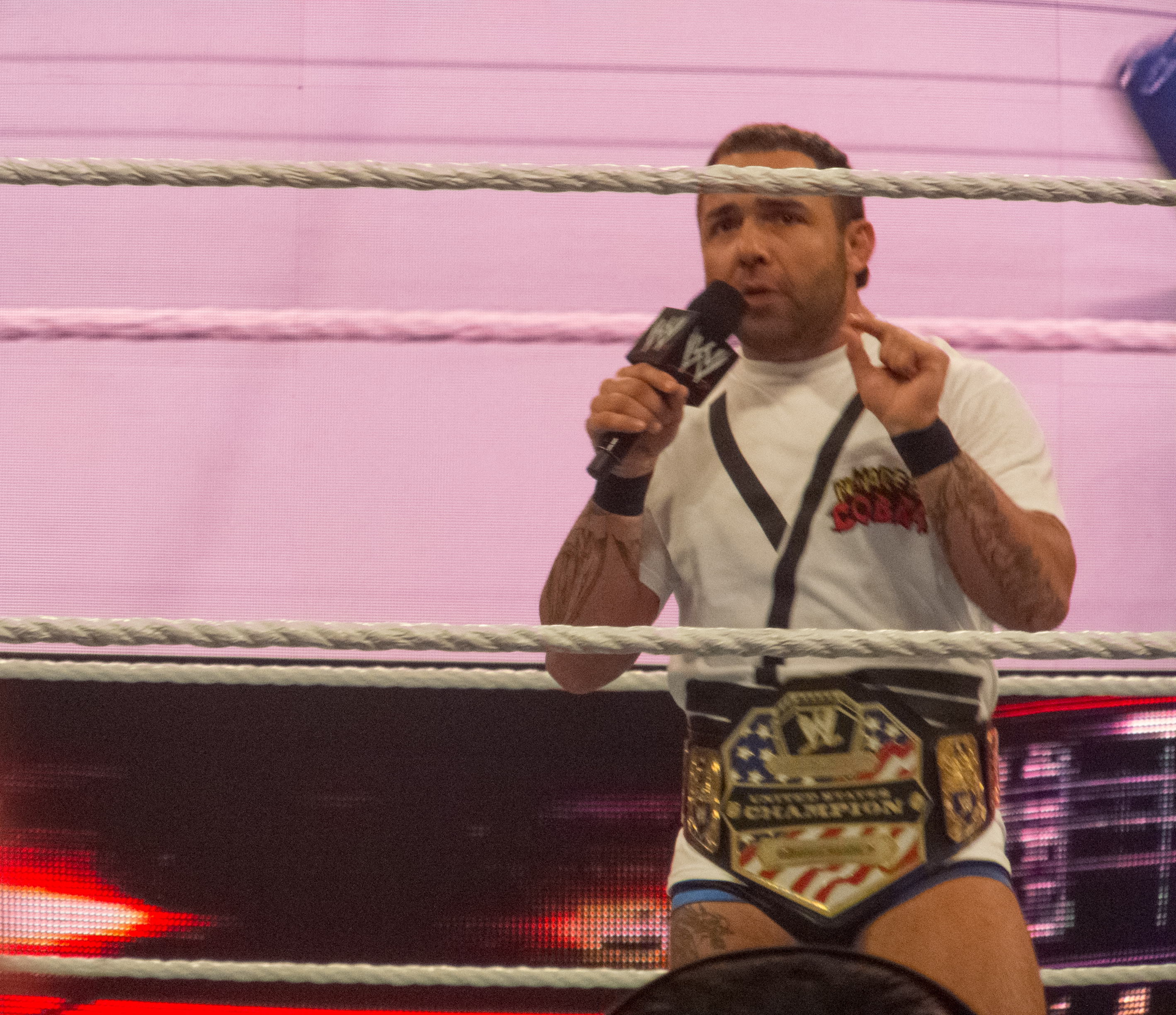 WWE United States Championship match